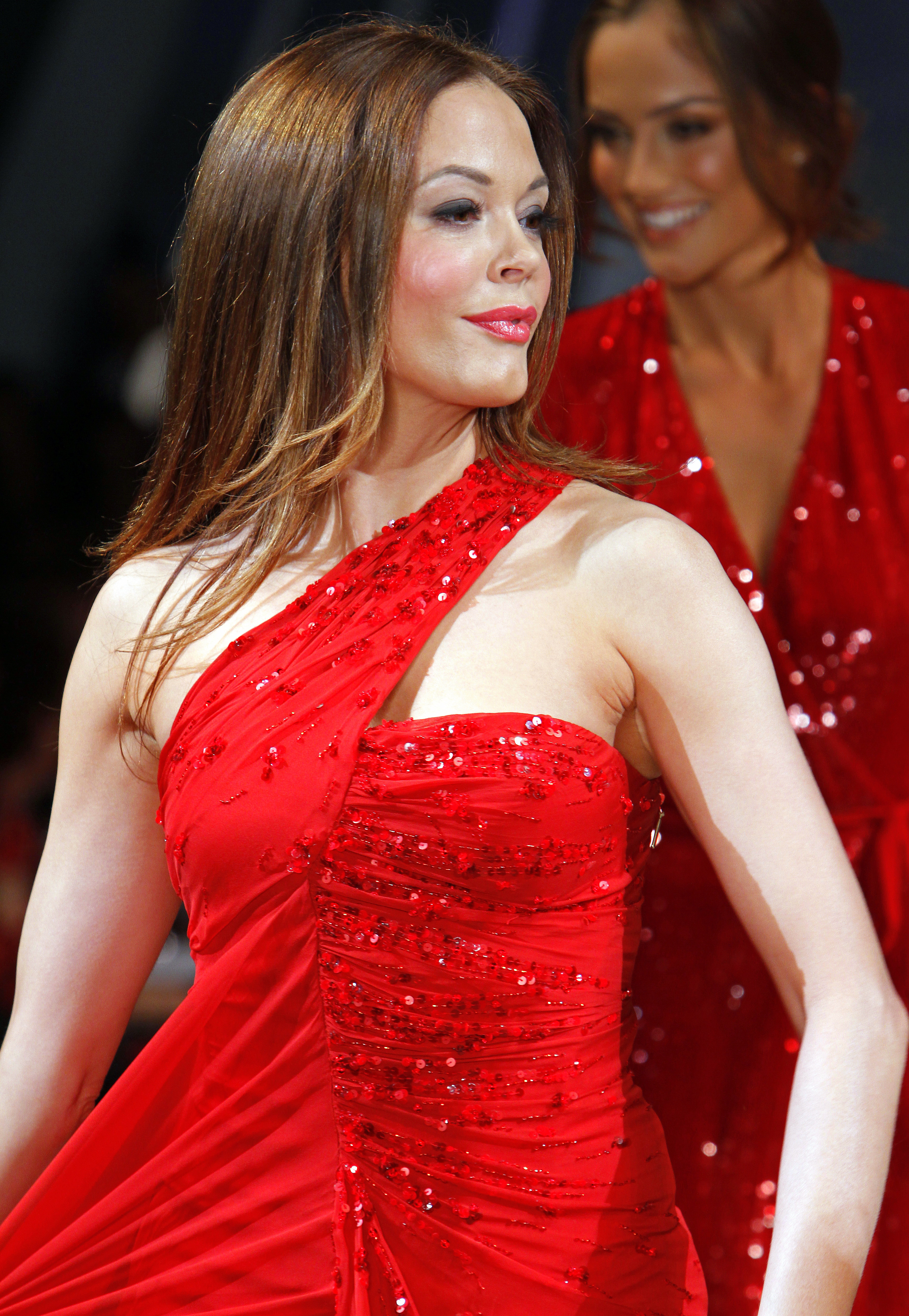 Rose McGowan: The Heart Truth's Red Dress Collection Fashion Show 2012.